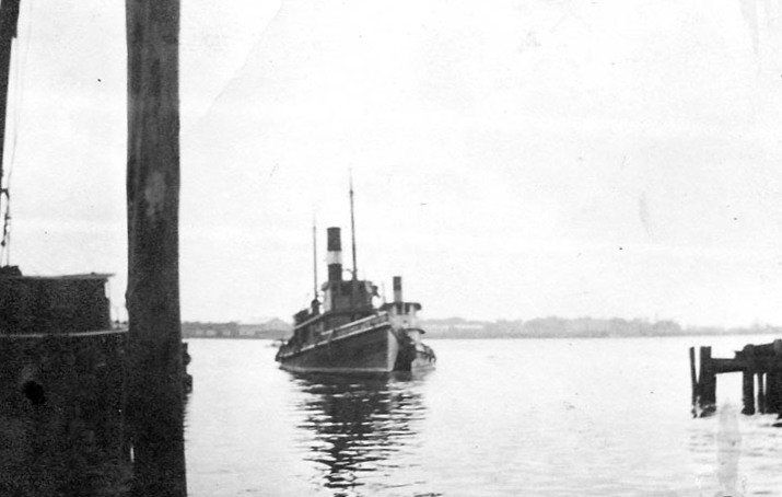 The commercial tug Edgar F. Coney alongside a smaller tug prior to her United States Navy service as USS Edgar F. Coney (SP-346). Original caption: “Photo # NH 103629 Tug Edgar F. Coney, which was USS Edgar F. Coney (SP-346) in 1917-1919”